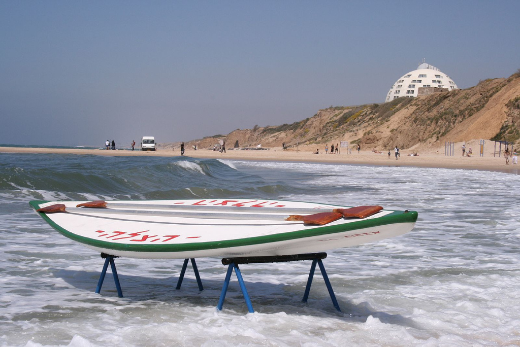 "Hasake" (lifeguard boat) at Ashkelon beach